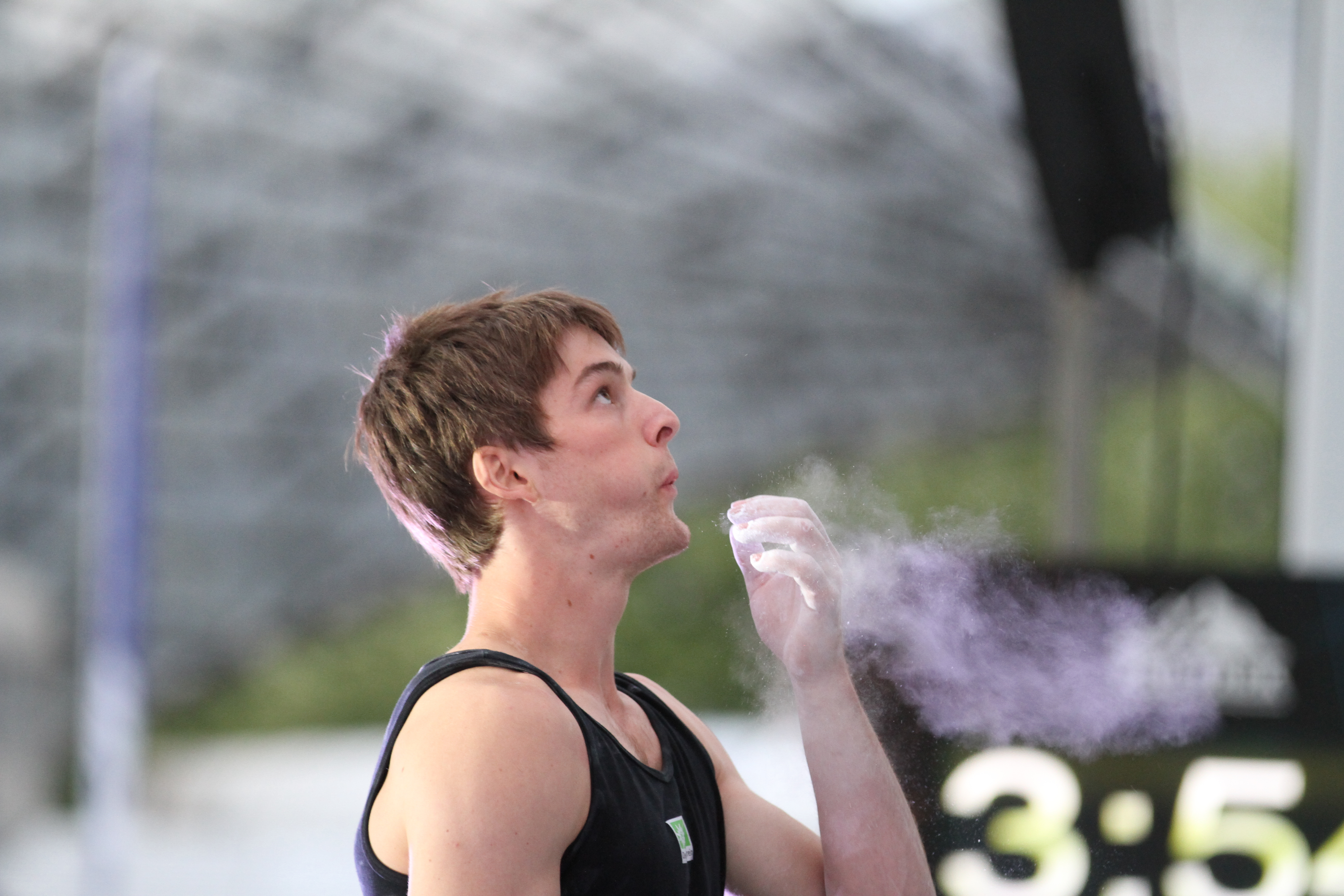 IFSC Boulder Worldcup, Munich 2015. Jan Hojer (GER)